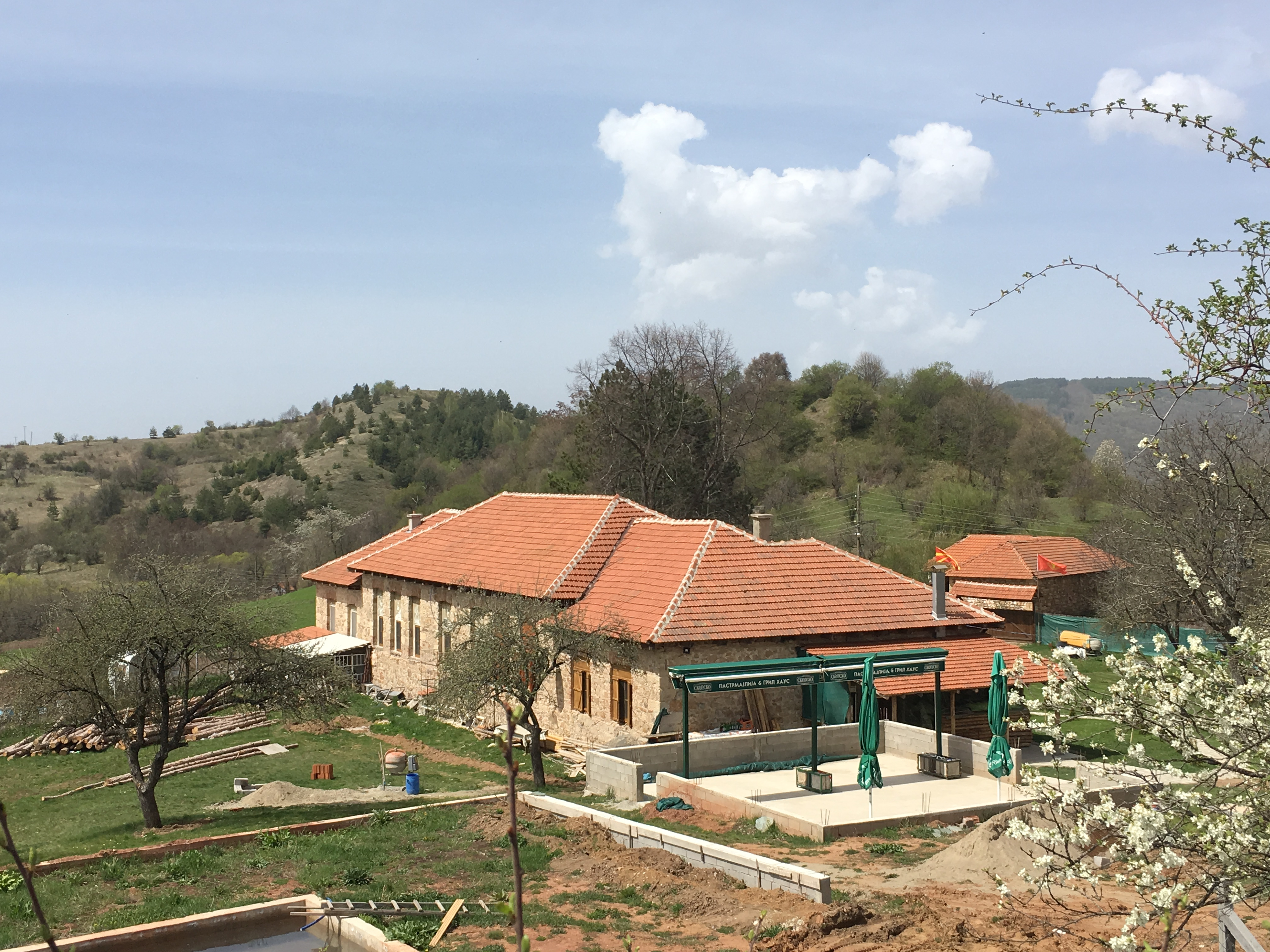 A building of the former school in the village of Trnovo